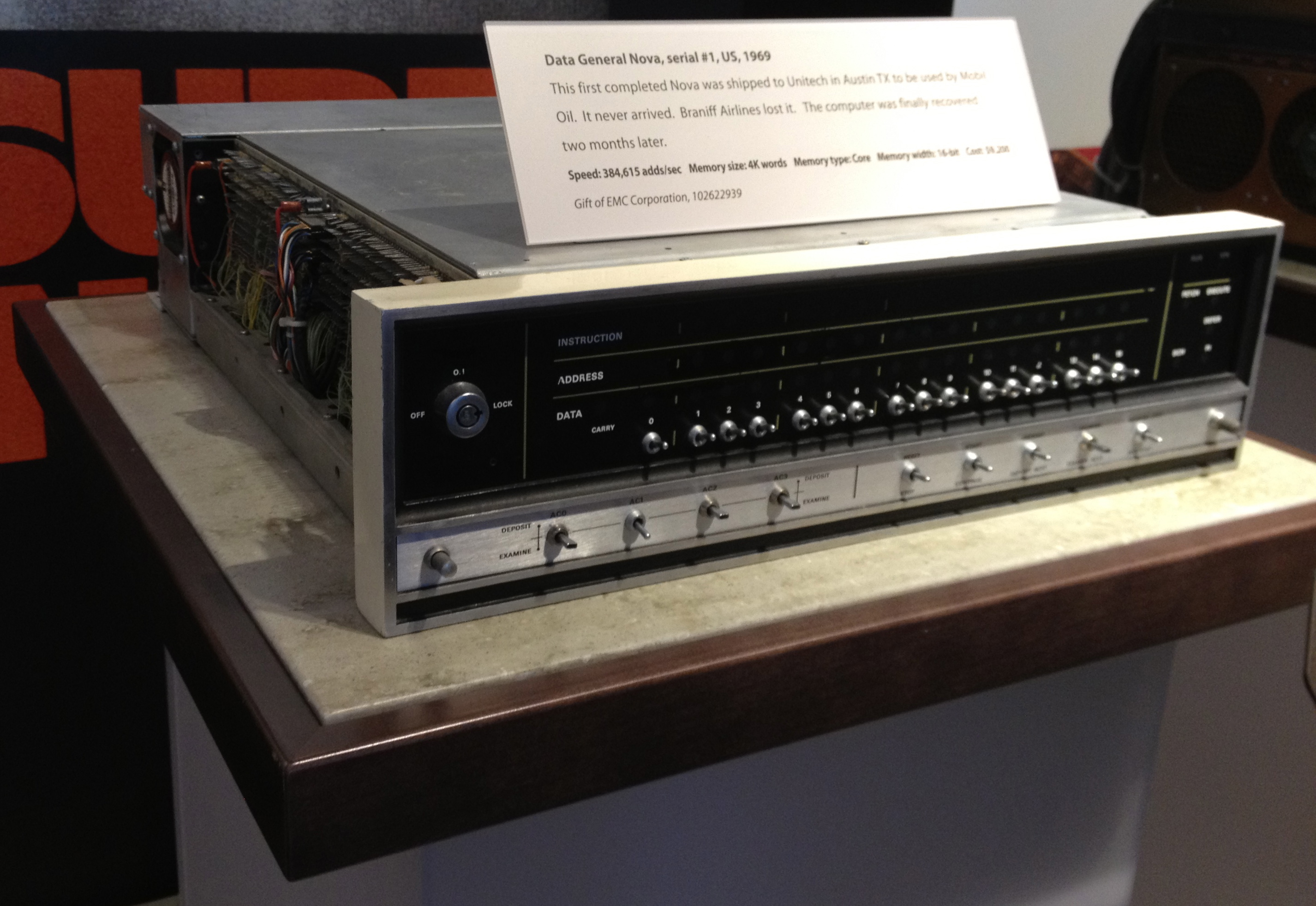 The first Data General Nova minicomputer, from 1969, at the Computer History Museum